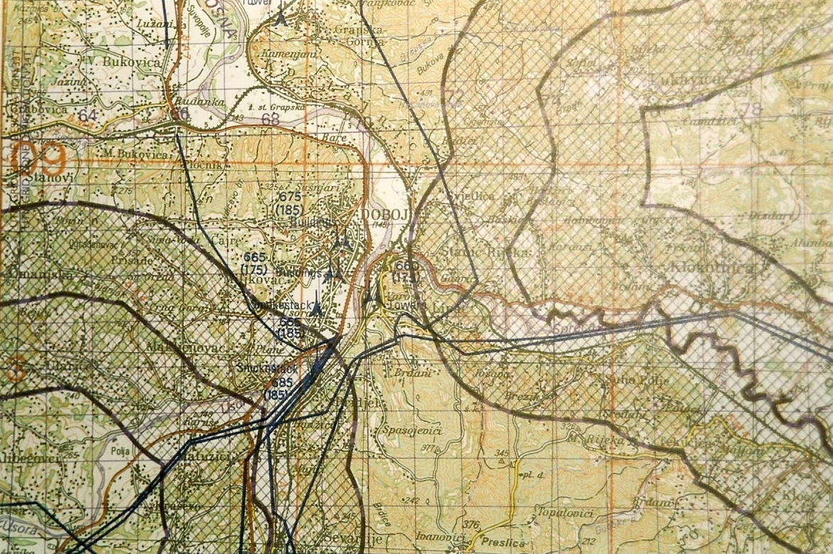 Picture shows the separation line in the area of Doboj in Bosnia, written on an IFOR map, december 1995